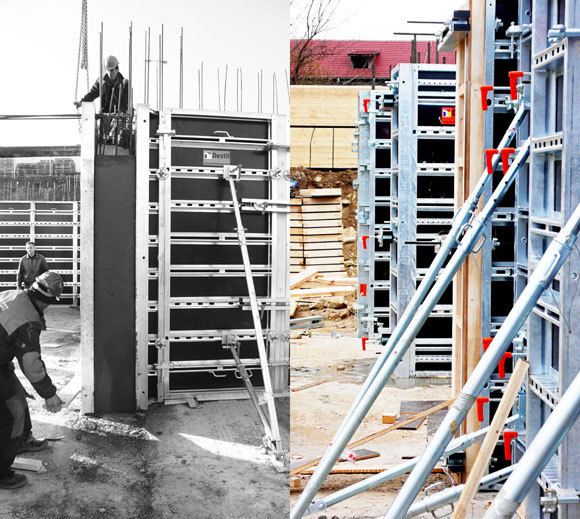 Formwork destil to England